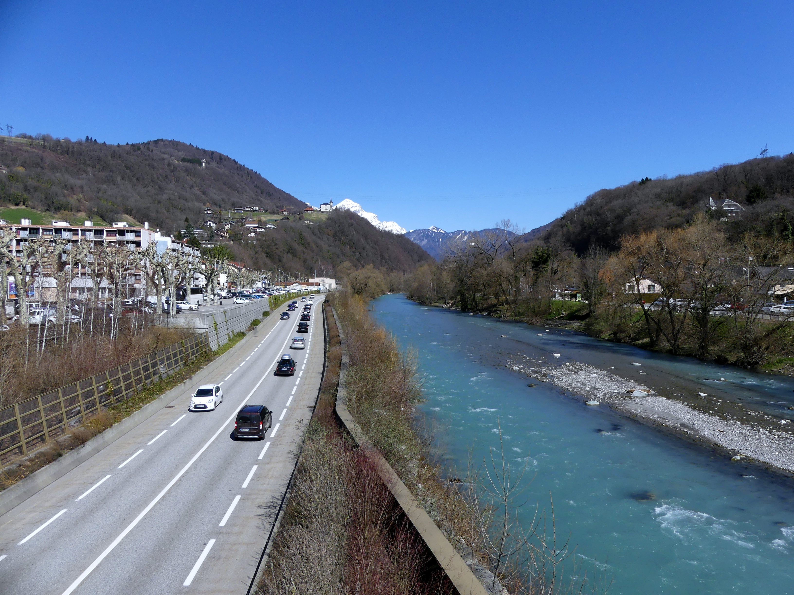 Sight of the Departmenal road 1212 in the direction of Ugine, circumventing the city of Albertville along the Arly river, in Savoie, France.